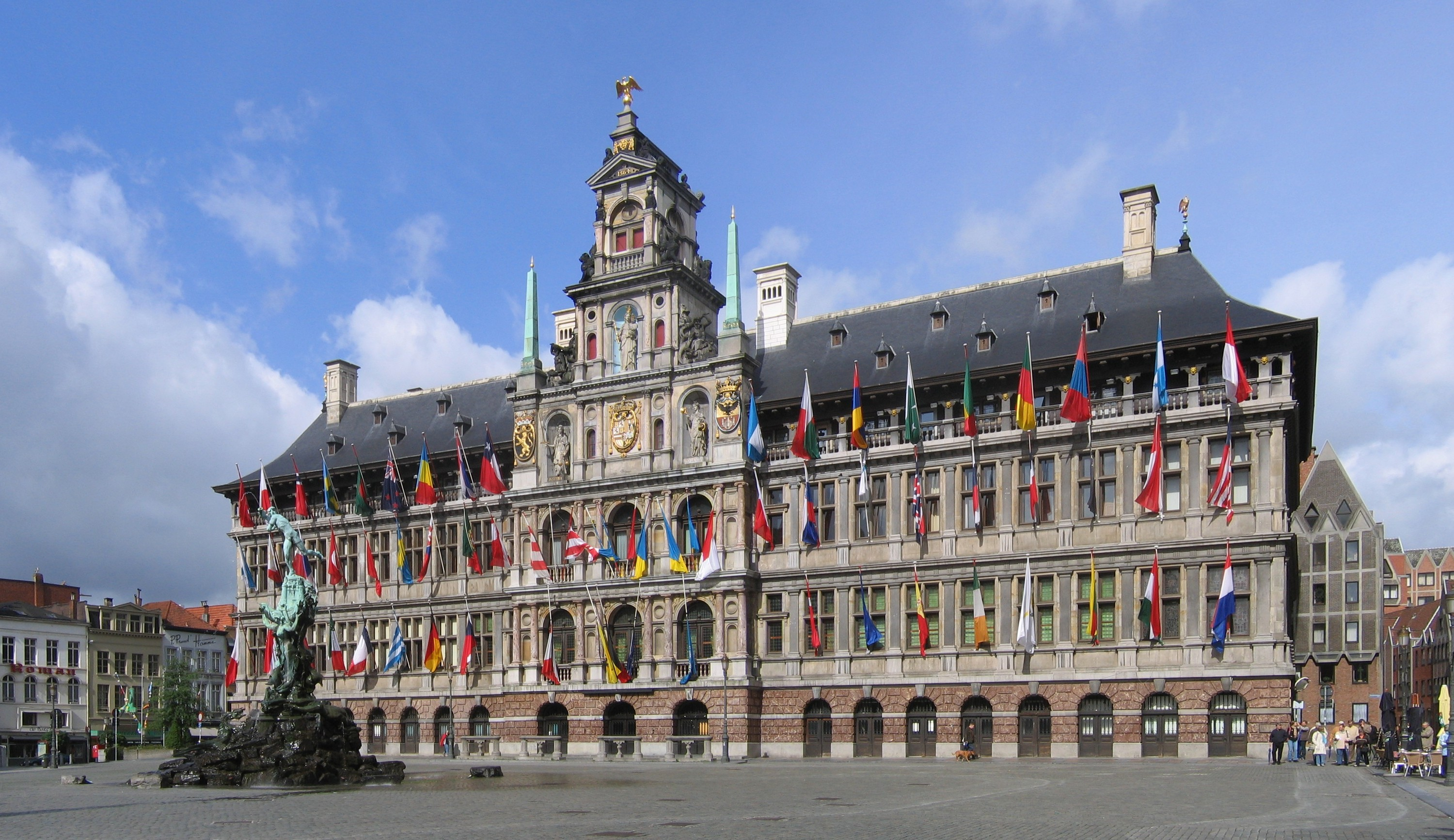 Image based on two own photos, stitched with hugin, editing with gimp set the seam location and blending was done using enblend. Cropped version of Image:Antwerpen_Stadhuis_2006-05-28.jpg.